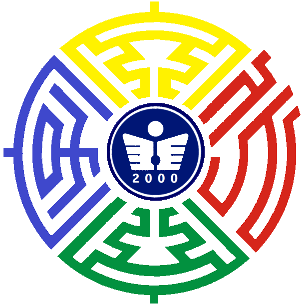 traditional patterns, and are expressed in Chunha Chub-dong and the east, west, and north.